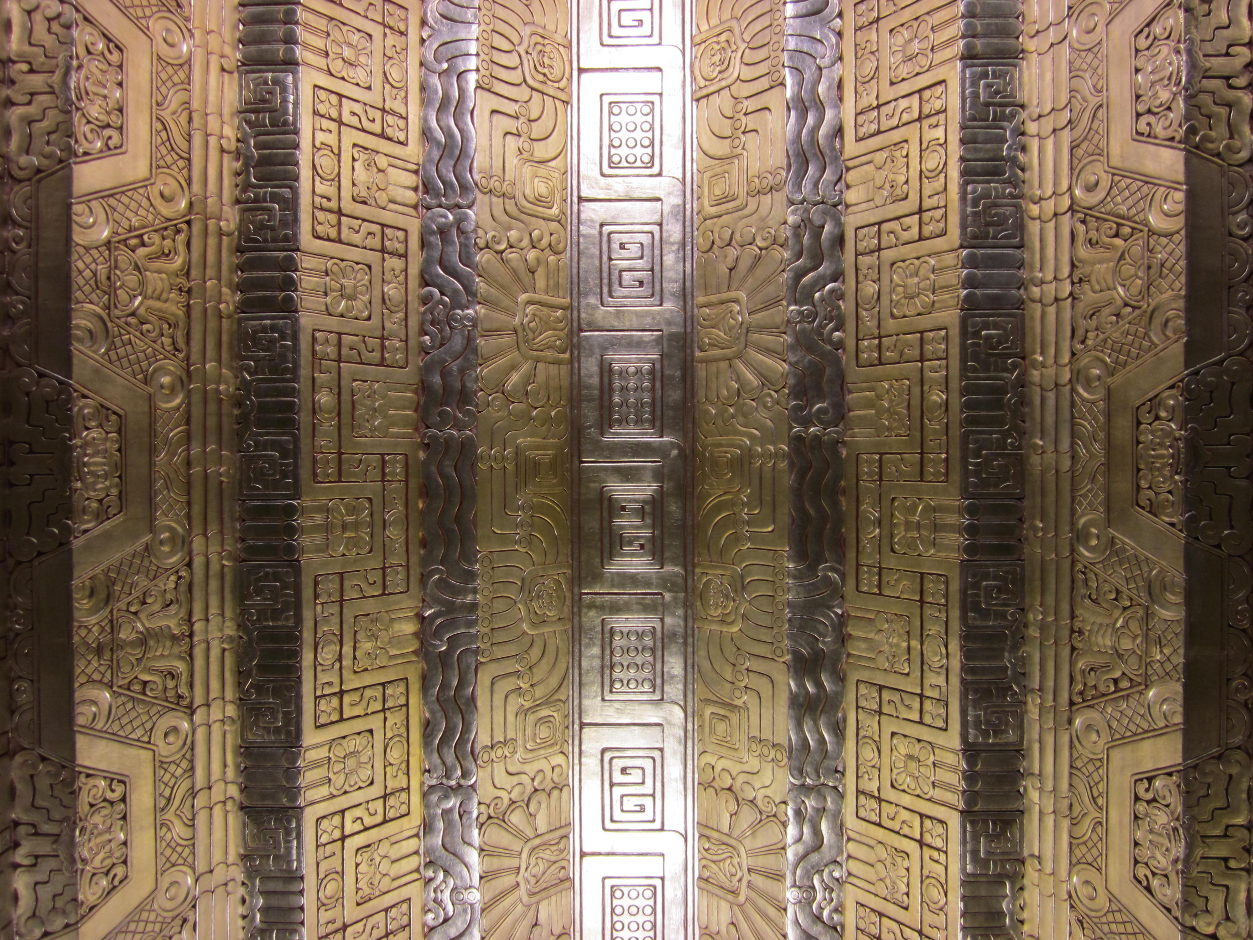 The lobby ceiling of 450 Sutter Street in San Francisco, California.